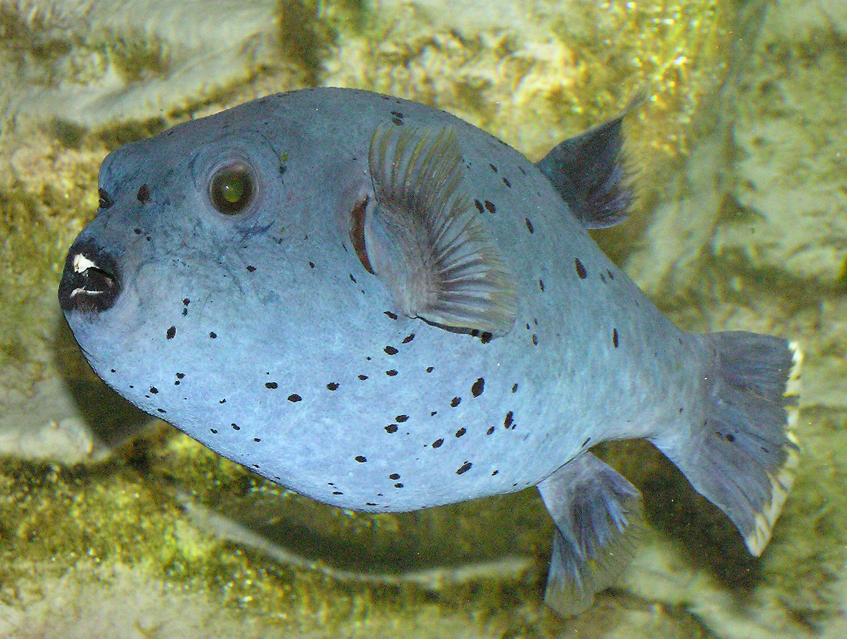 Black-spotted puffer (Arothron nigropunctatus) at Bristol Zoo, Bristol, England. Photographed by Adrian Pingstone in January 2005 and released to the public domain.